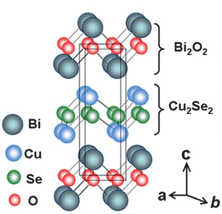 Reference: Energy Environ. Sci., 2012, 5, 7188–7195